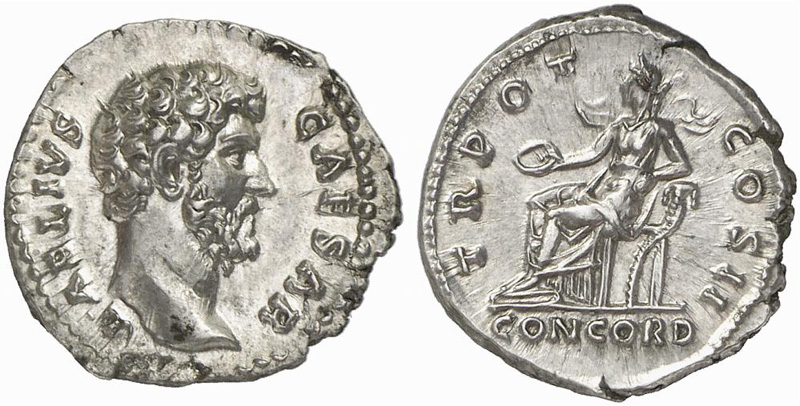 Aelius. Caesar, AD 136-138. Denarius (Silver, 3.29 g 6), Rome, 137. L AELIVS CAESAR Bare head of Aelius to right. TR POT COS II Concordia seated left, holding patera in her right hand and resting her left elbow on cornucopiae set on the ground. In exergue CONCORD BMC 981 (Hadrian). Cohen 1. Hill 837. RIC 436 (Hadrian). A splendid piece, of wonderful style. Minor die scratch on the obverse, otherwise, good extremely fine.